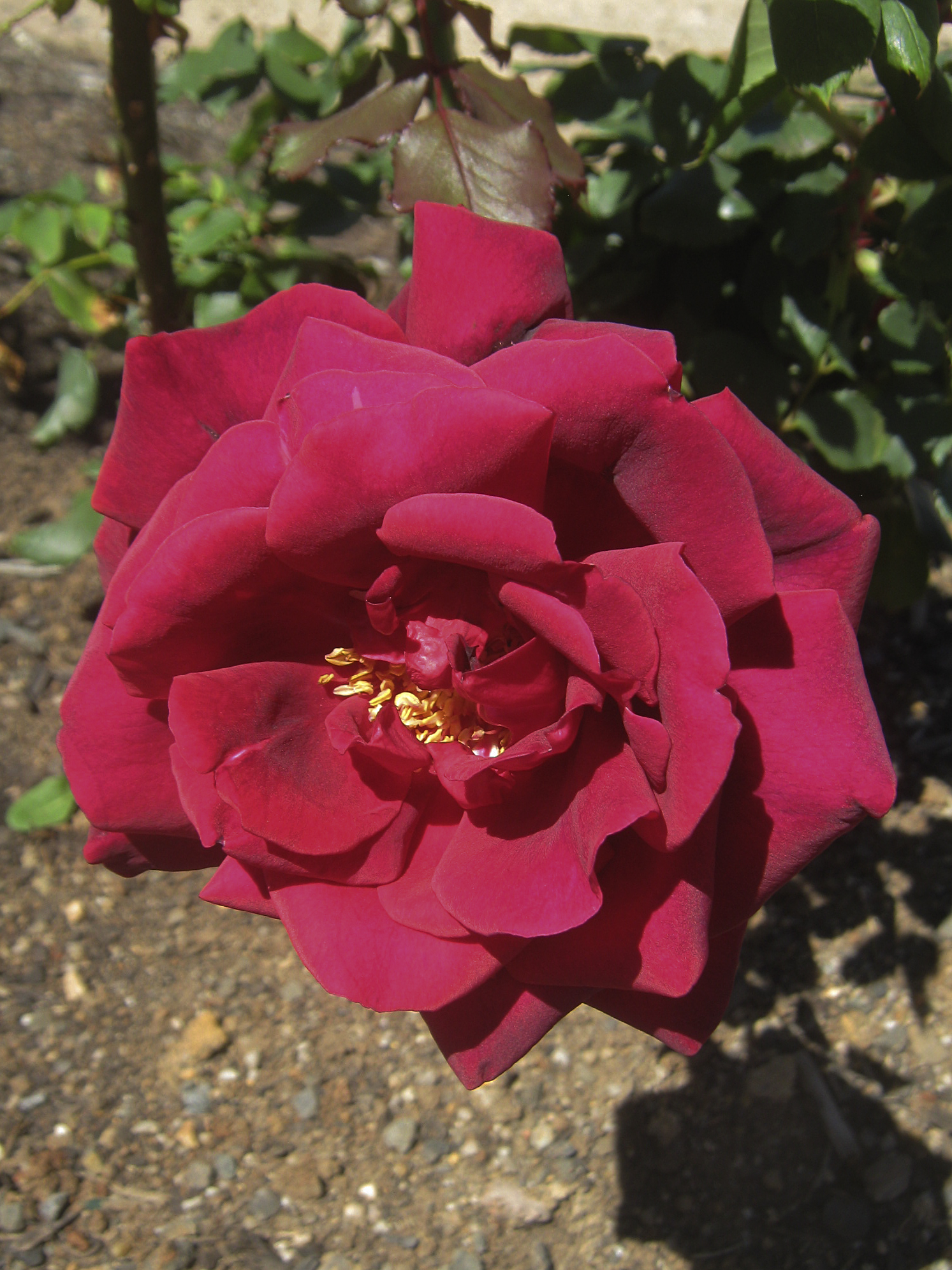 Rose 'Crimson Glory' Hybrid Tea by Wilhelm Kordes 1935; Photographed in Nieuwesteeg Heritage Rose Garden, Maddingley Park, Bacchus Marsh, Victoria